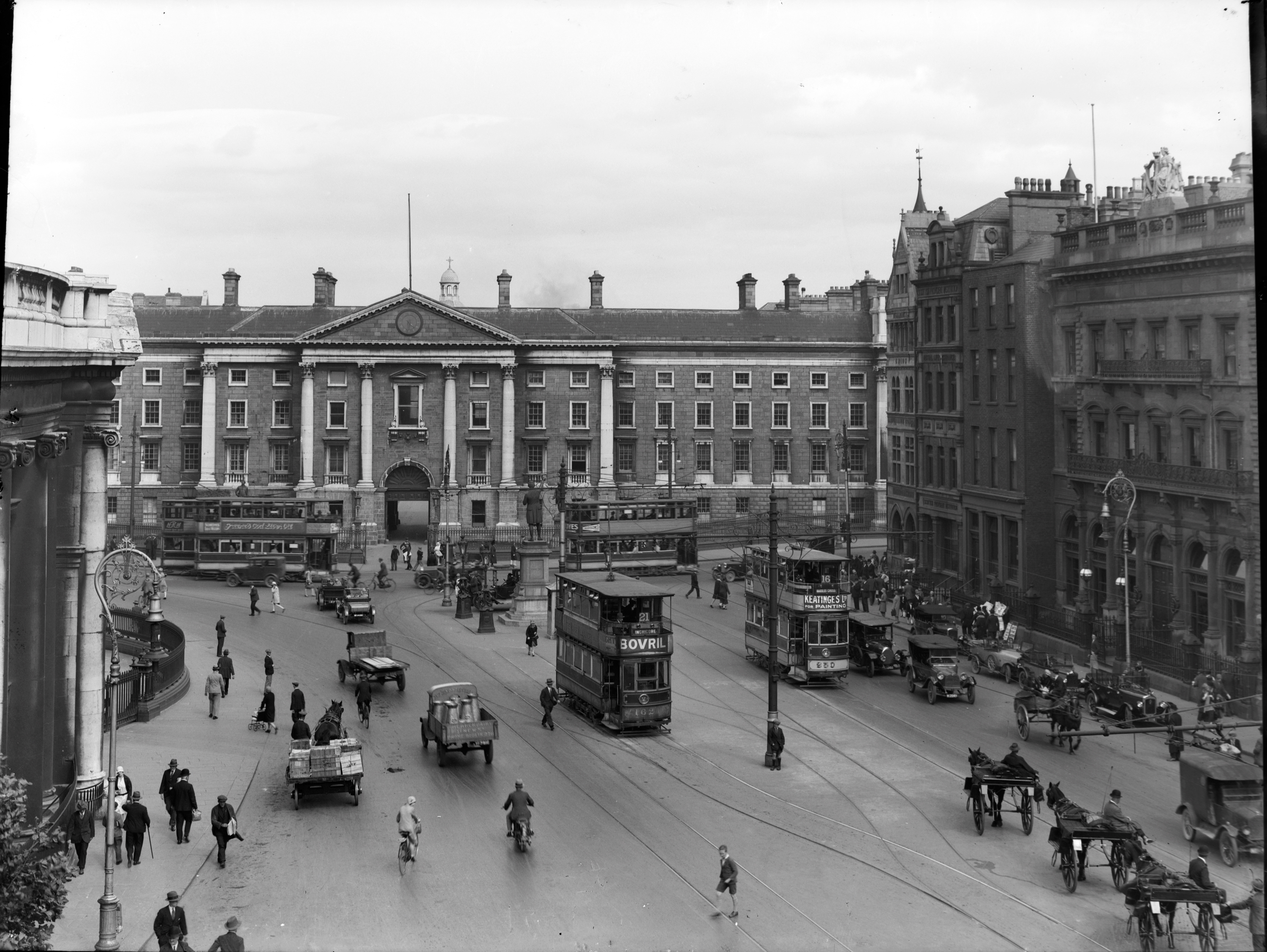 … well, with the possible exception of an early bi-plane spluttering across the façade of Trinity College, but we can't have everything! A lovely high angle view of the junction of Dame Street with College Green in Dublin. I would encourage you all to have a good old zoom in on this one. We may have been here before, but there's gorgeous detail to be enjoyed... Date: 1930s? NLI Ref.: EAS_1744